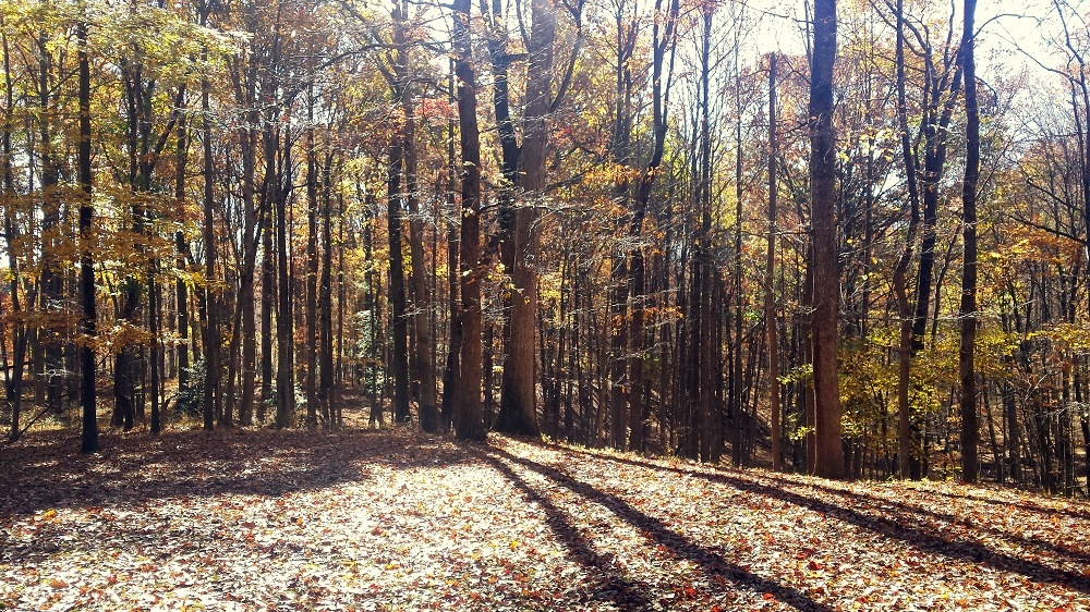 Autumn in Derwood - Maryland - USA Photo by Persian Dutch Network